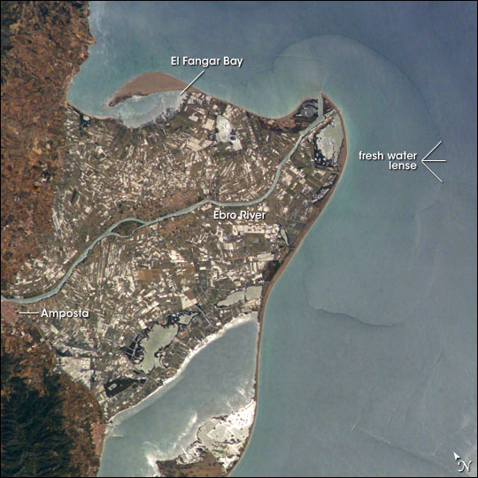 Astronaut's photo of the Ebro delta region, the Ebro River at the Mediterranean, Catalonia, Spain.